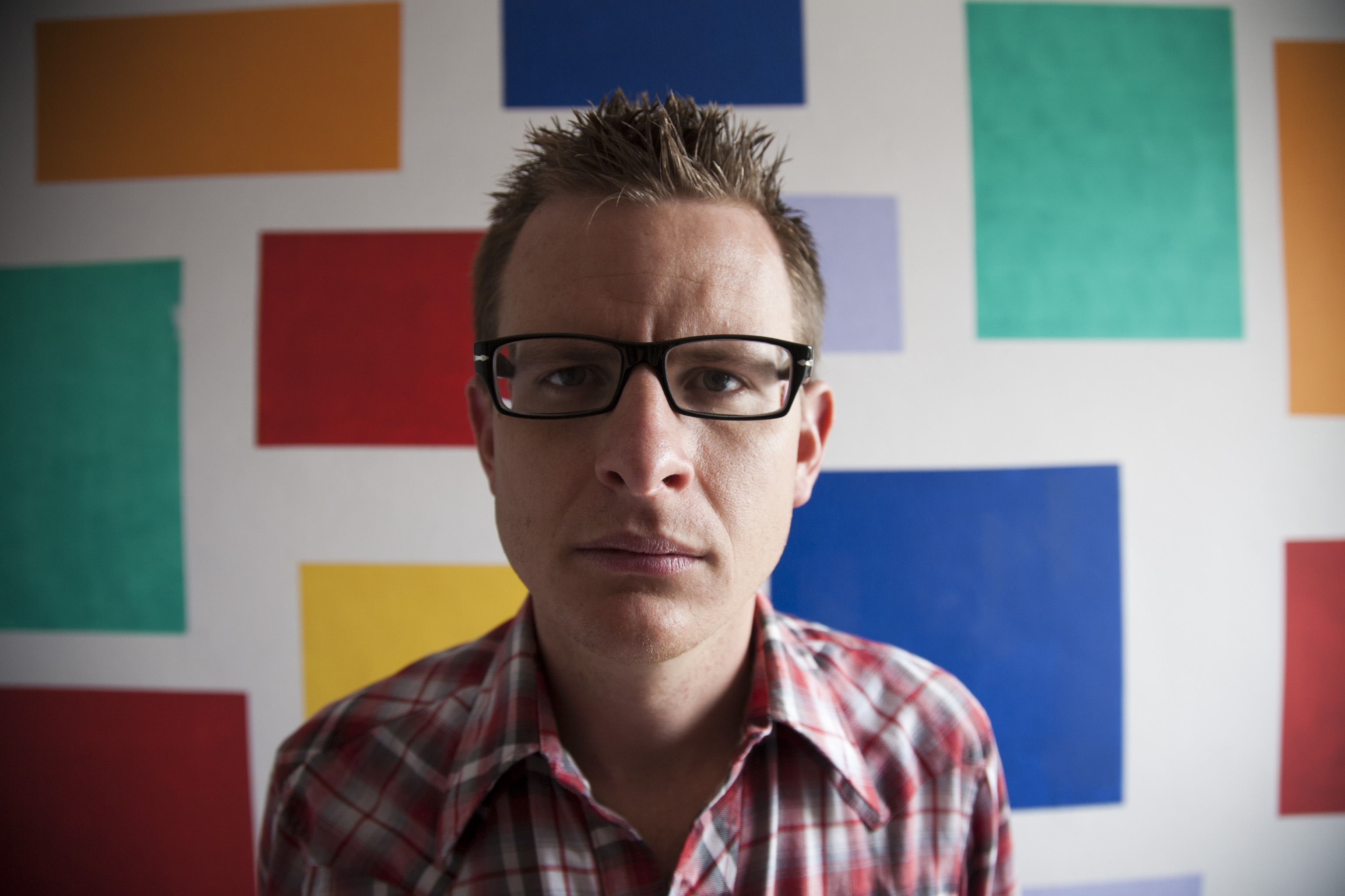 This is a portrait of Timothy Browning